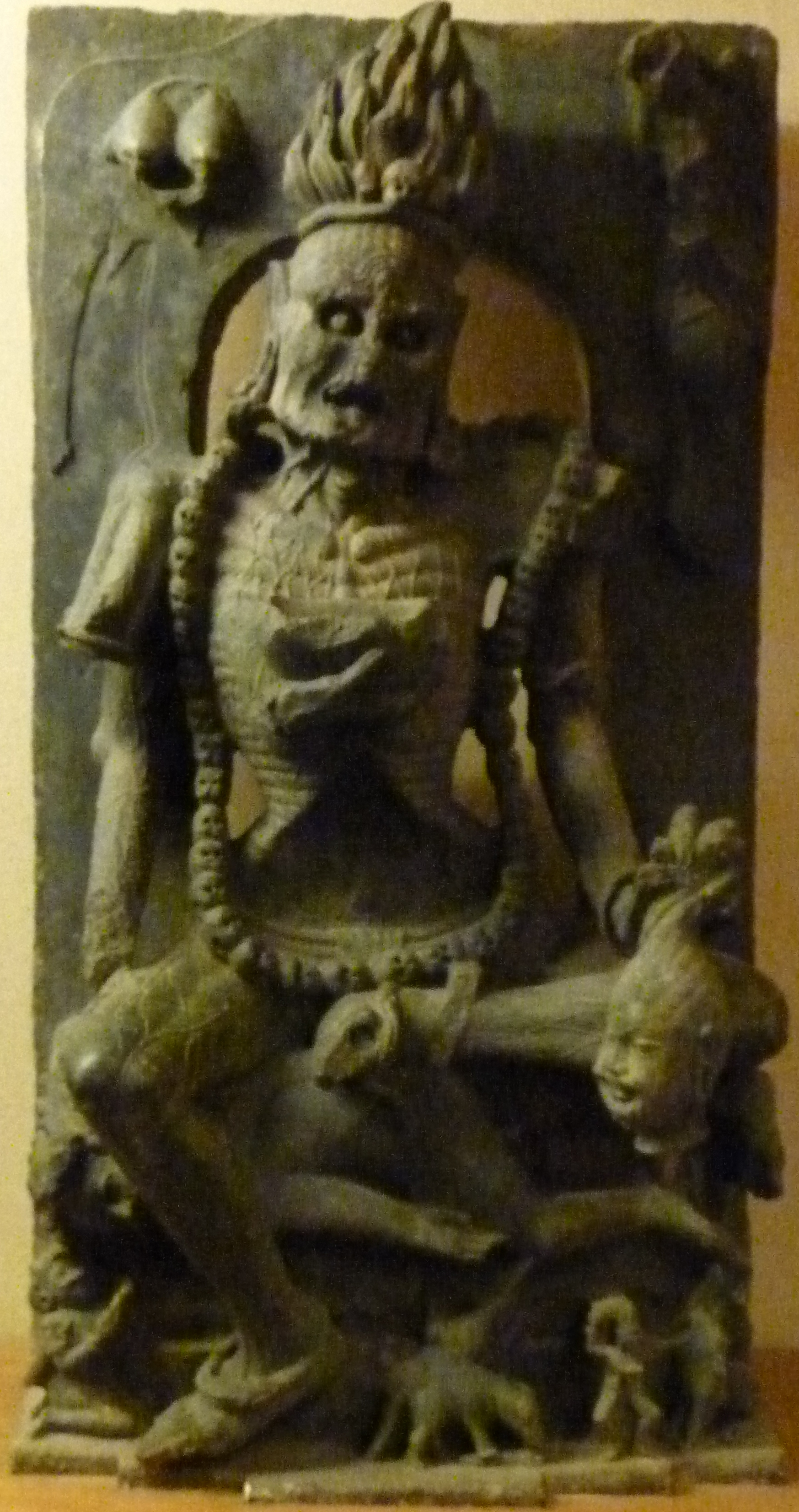 It is a sculpture of Chamuda, a Hindu deity. This sculpture was found in Dharmasala (Jajpur) dated circa 8th century AD. The photo was taken in State museum Bhubaneswar